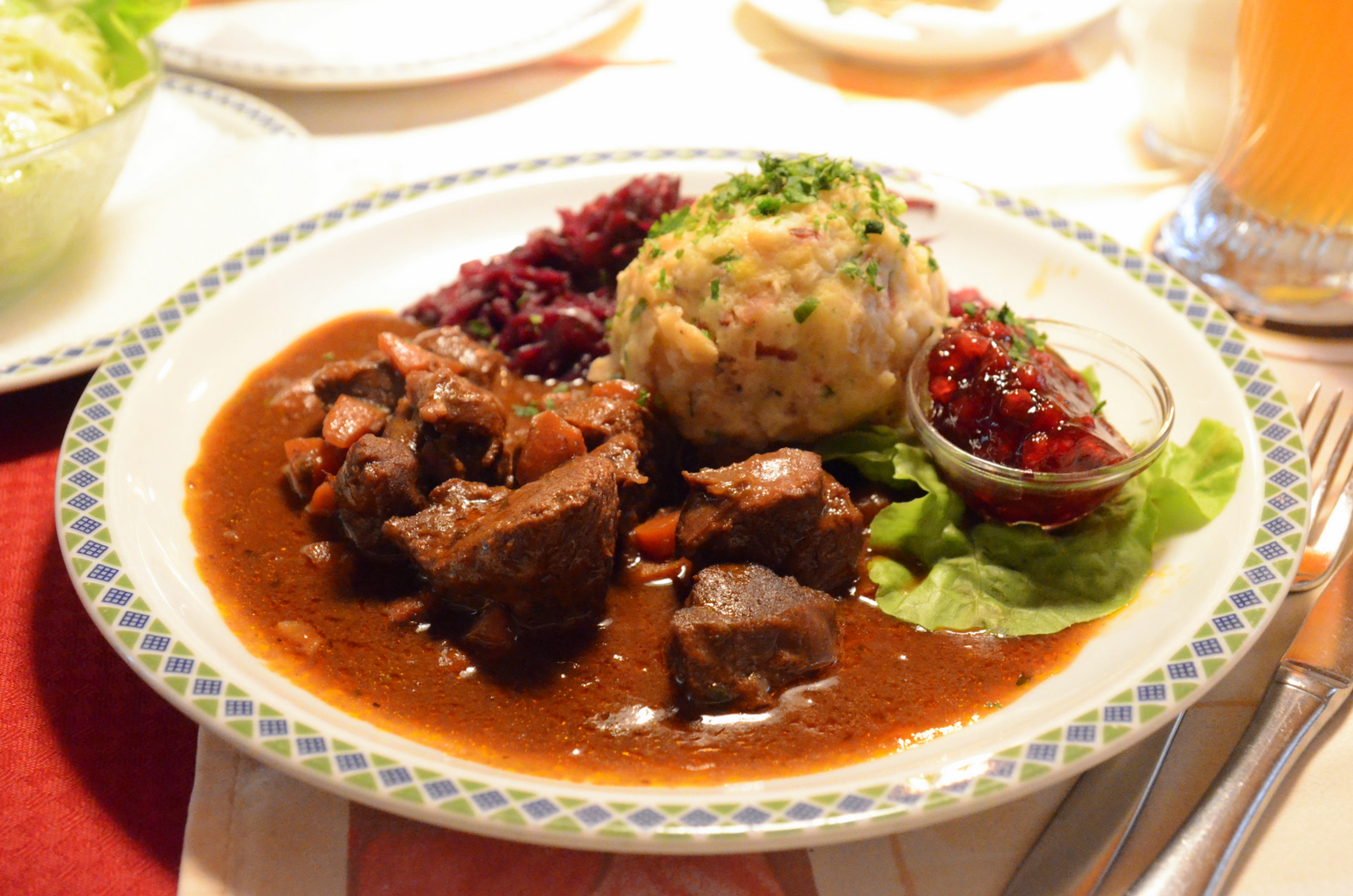 Hirschgulash mit Speckknödel und Blaukraut is a goulash made from deer meat and served with a bread-and-bacon dumpling and red cabbage. At a South Tirolean restaurant in Herrsching, Bavaria.